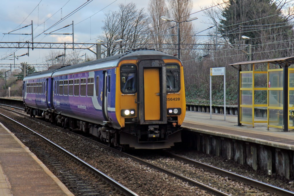 Northern Rail Class 156, 156428, West Allerton railway station